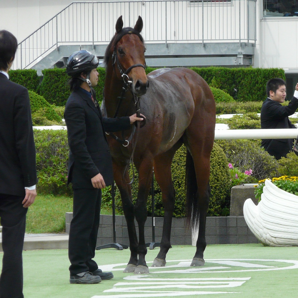 Lord-kanaloa20110514